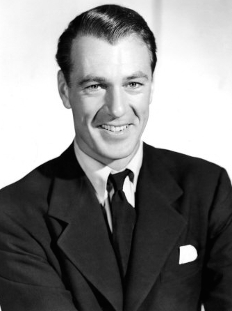 Gary Cooper publicity photo used to promote the film Meet John Doe, 1941